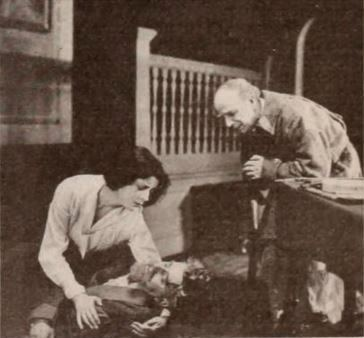 Still from the American mystery film Madame Sphinx (1918) with Alma Rubens, Frank MacQuarrie (1875 – 1950), and John Lince (1862 – 1937), on page 17 of the June 15, 1918 Exhibitors Herald.